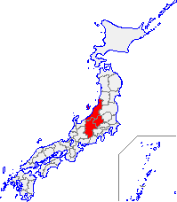 =Jōshinetesu region in Japan